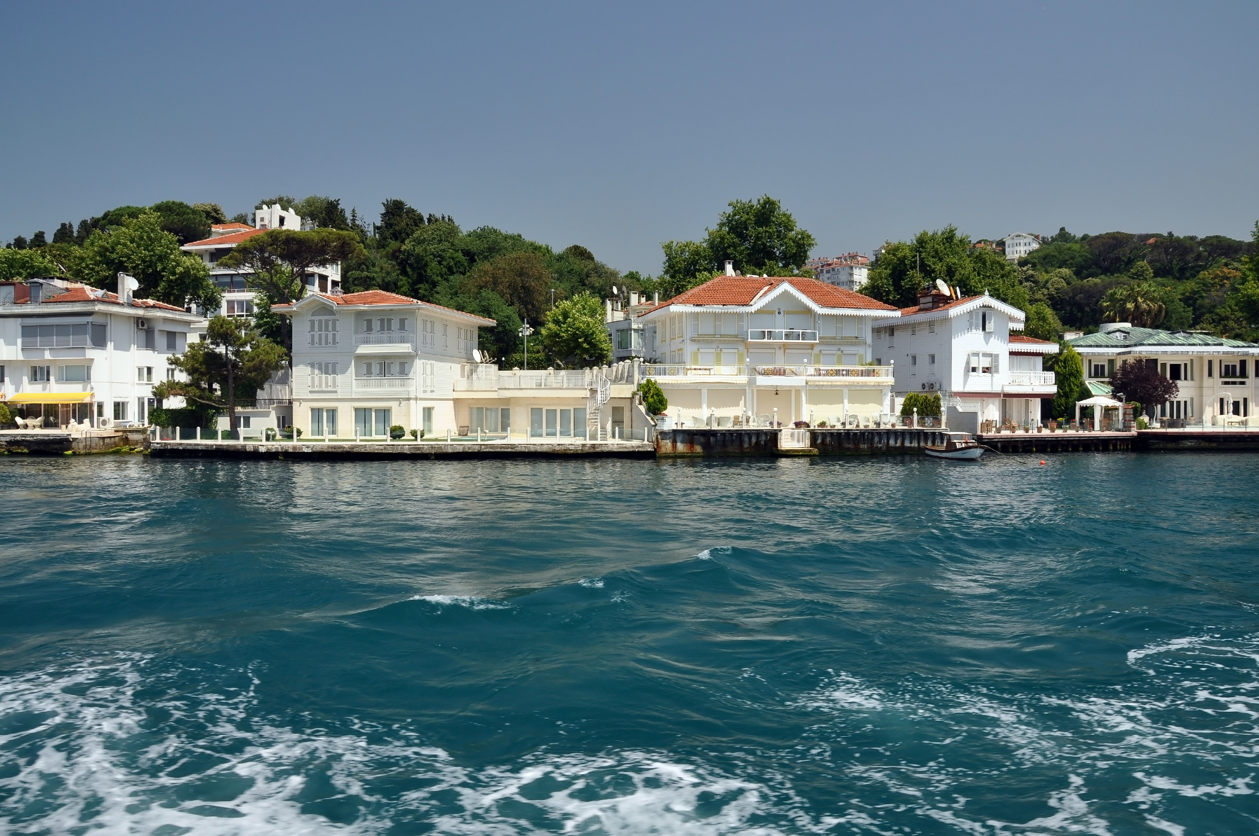 Elbiseci Ahmet Bey Yalısı, Esre Umur Yalısı and Necati Bey Yalısı the yalı ottoman mansions in Kanlıca on the shore of Bosphorus, Istanbul in Turkey.